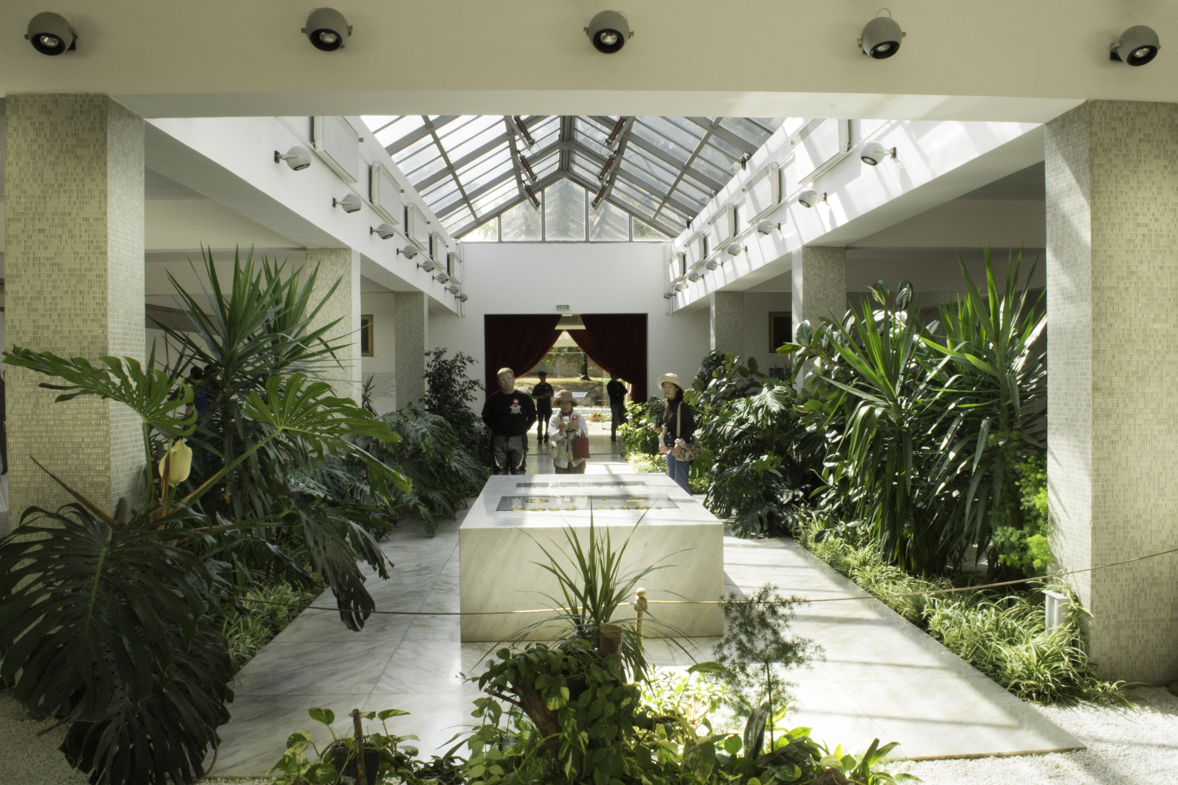 The House of Flowers (Belgrade): the mausoleum of the leader of the former Yugoslavia, Josip Broz Tito, who died on May 4, 1980. Main entrance to the mausoleum.